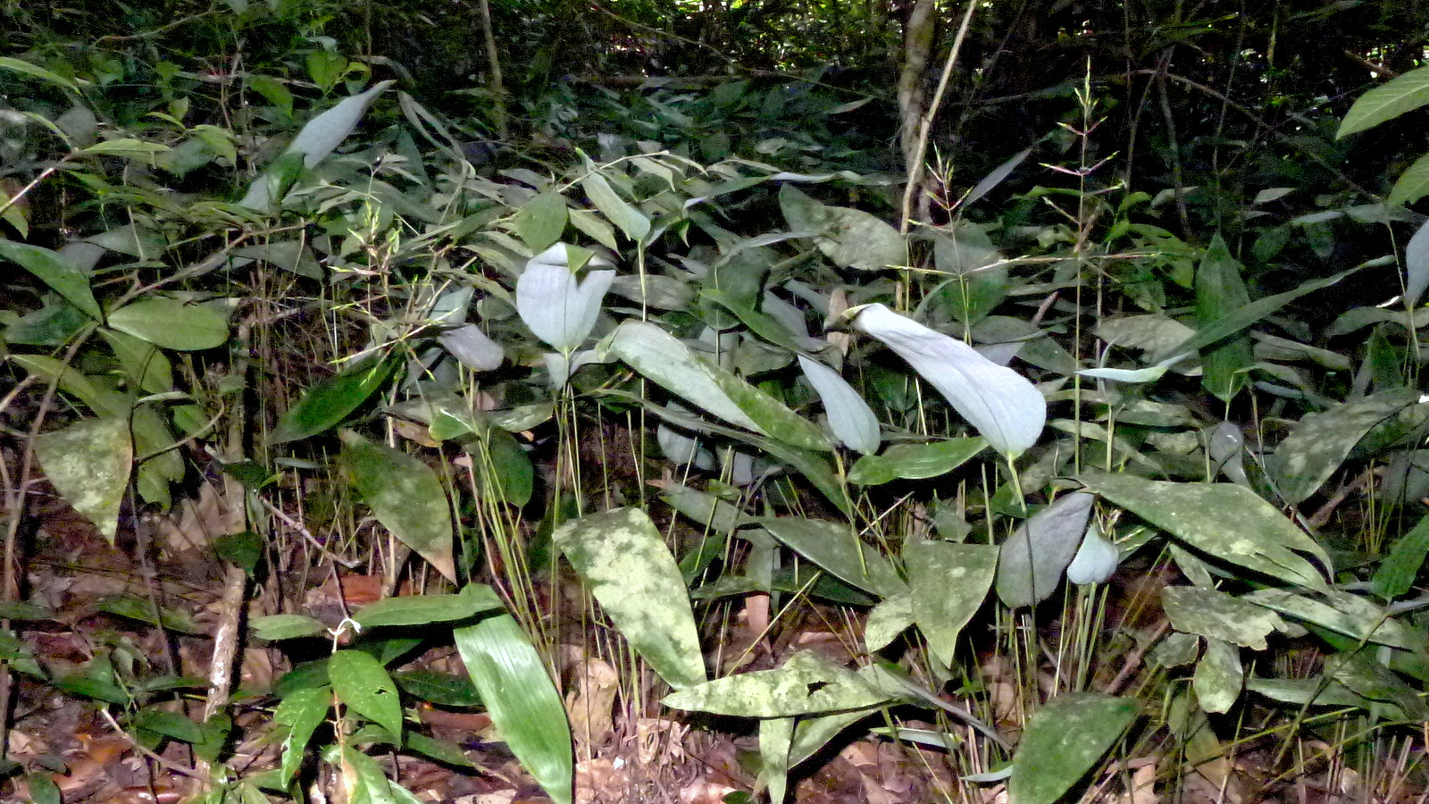 Sucrea monophylla Soderstr.